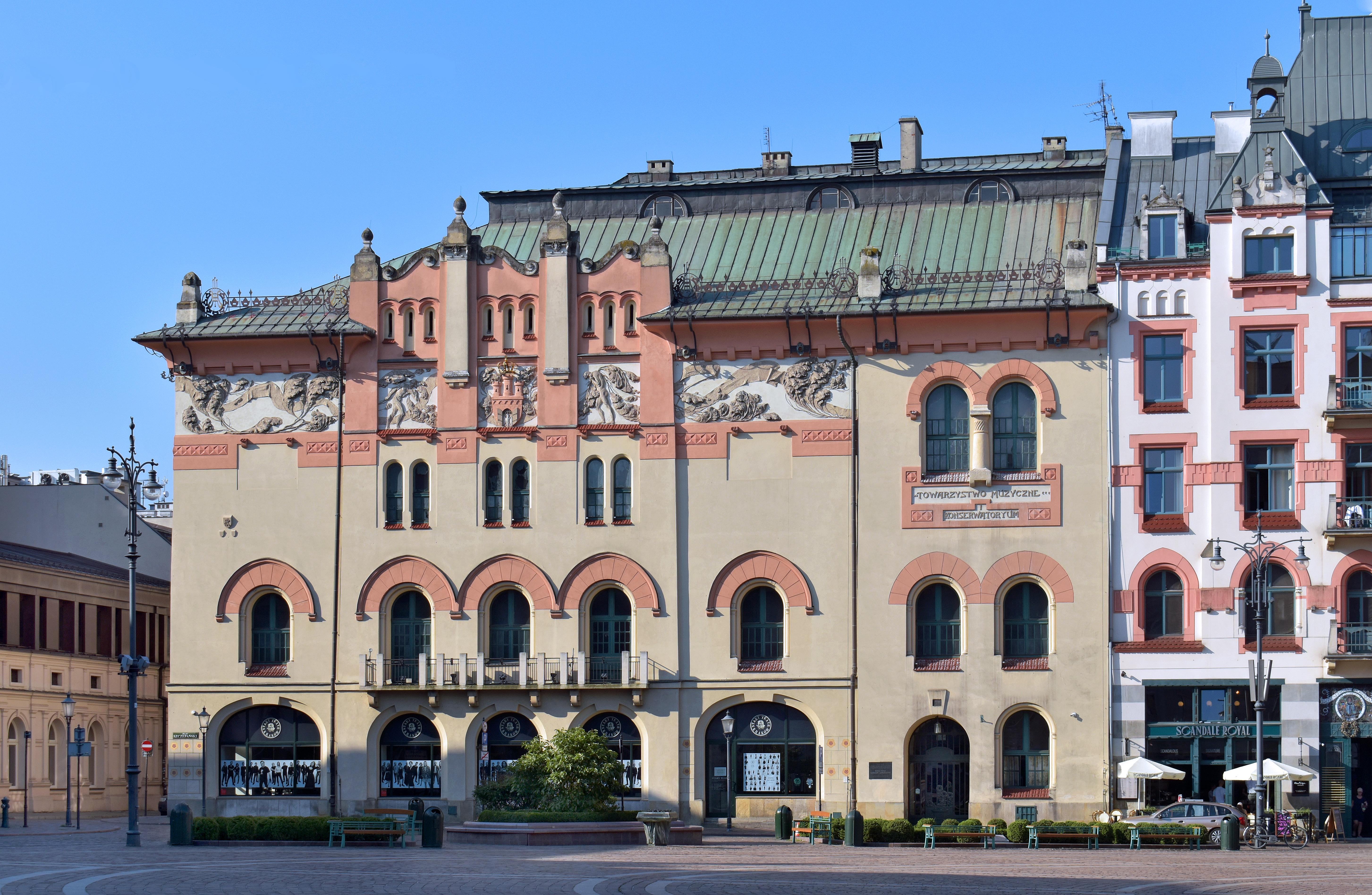 Stary (Old) Theater, 5 Jagiellonska street, Old Town, Krakow, Poland